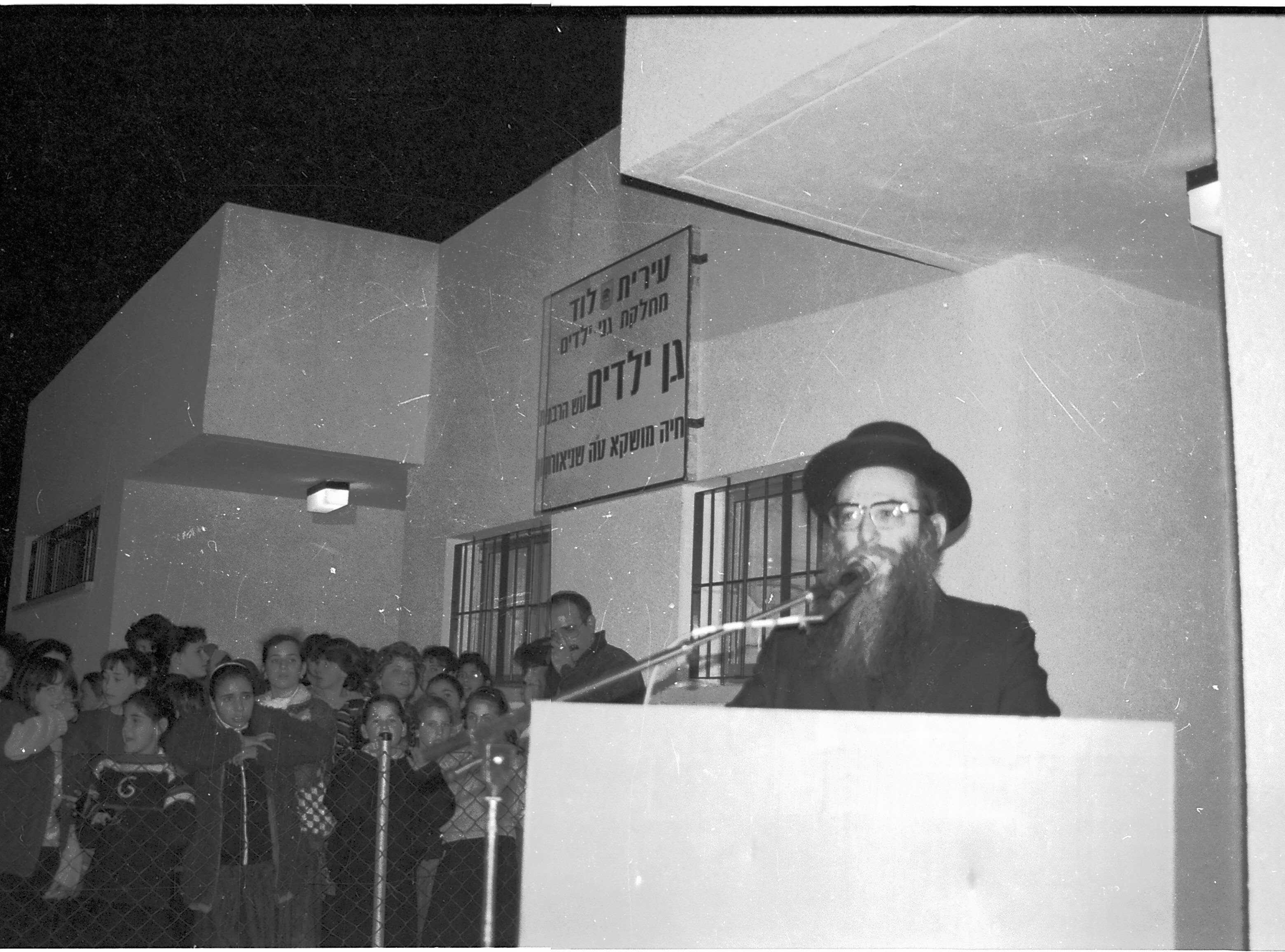 Education in Israel